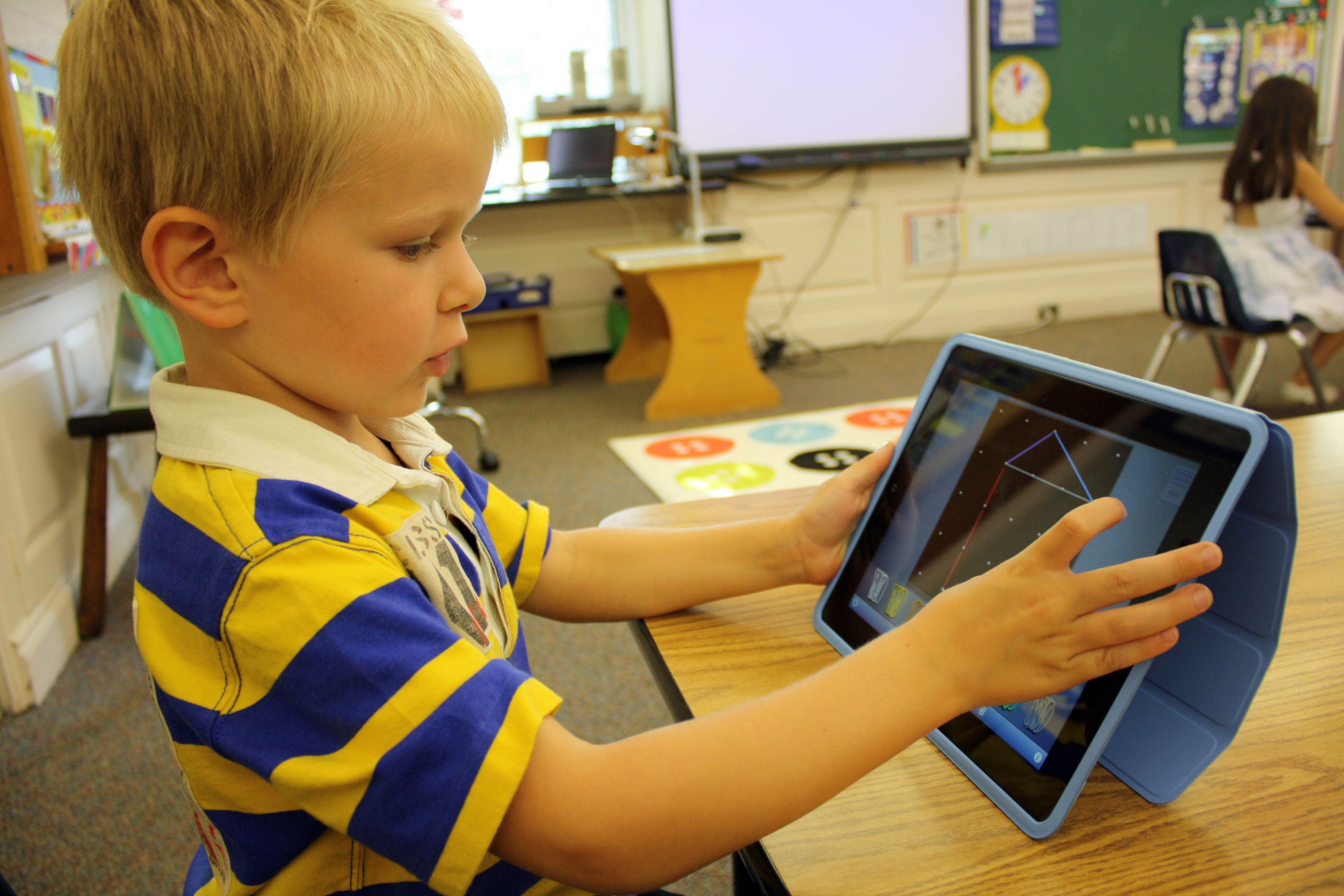 A kindergarten student using an ipad.